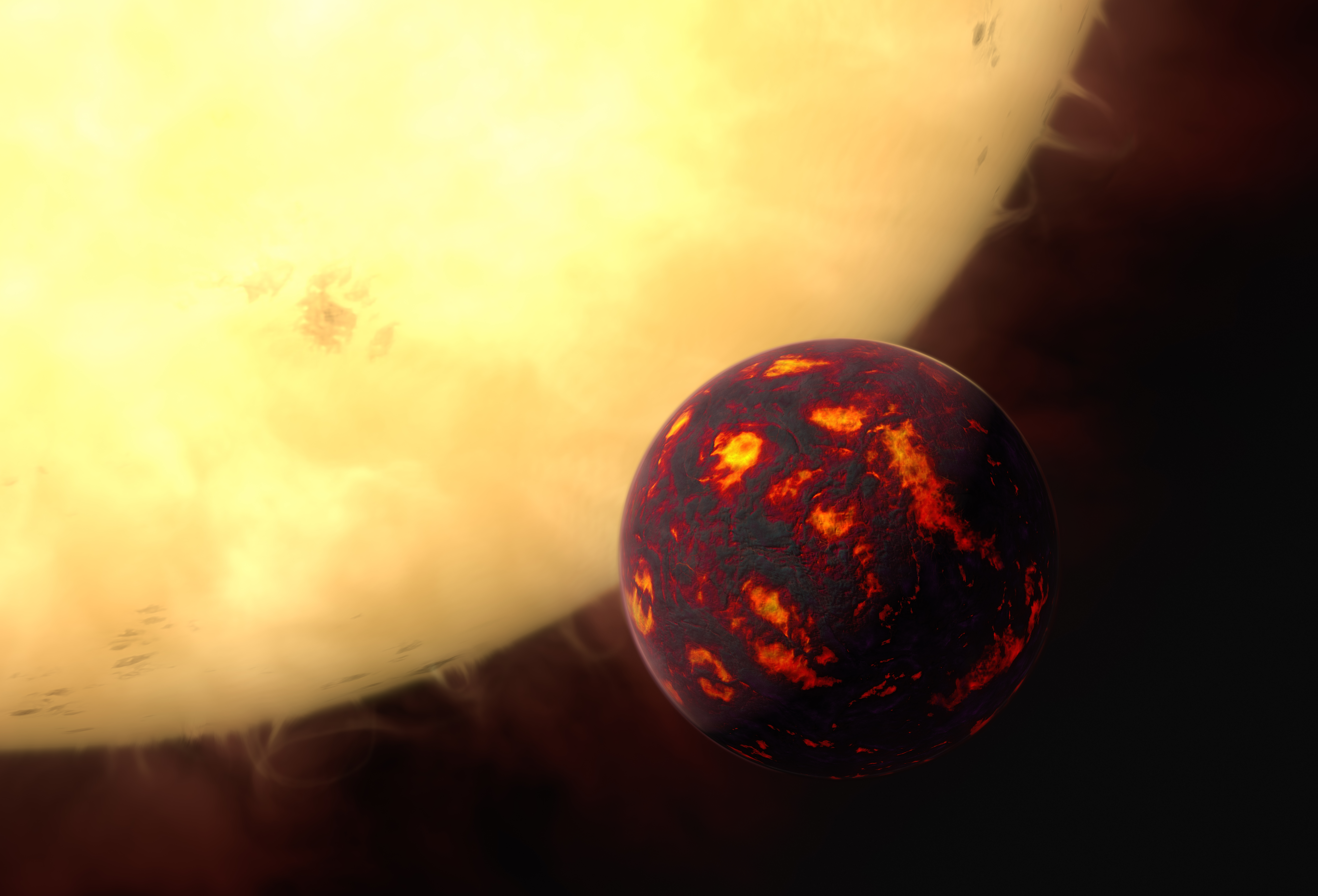 This artist’s impression shows the super-Earth 55 Cancri e in front of its parent star. Using observations made with the NASA/ESA Hubble Space Telescope and new analytic software scientists were able to analyse the composition of its atmosphere. It was the first time this was possible for a super-Earth. 55 Cancri e is about 40 light-years away and orbits a star slightly smaller, cooler and less bright than our Sun. As the planet is so close to its parent star, one year lasts only 18 hours and temperatures on the surface are thought to reach around 2000 degrees Celsius.